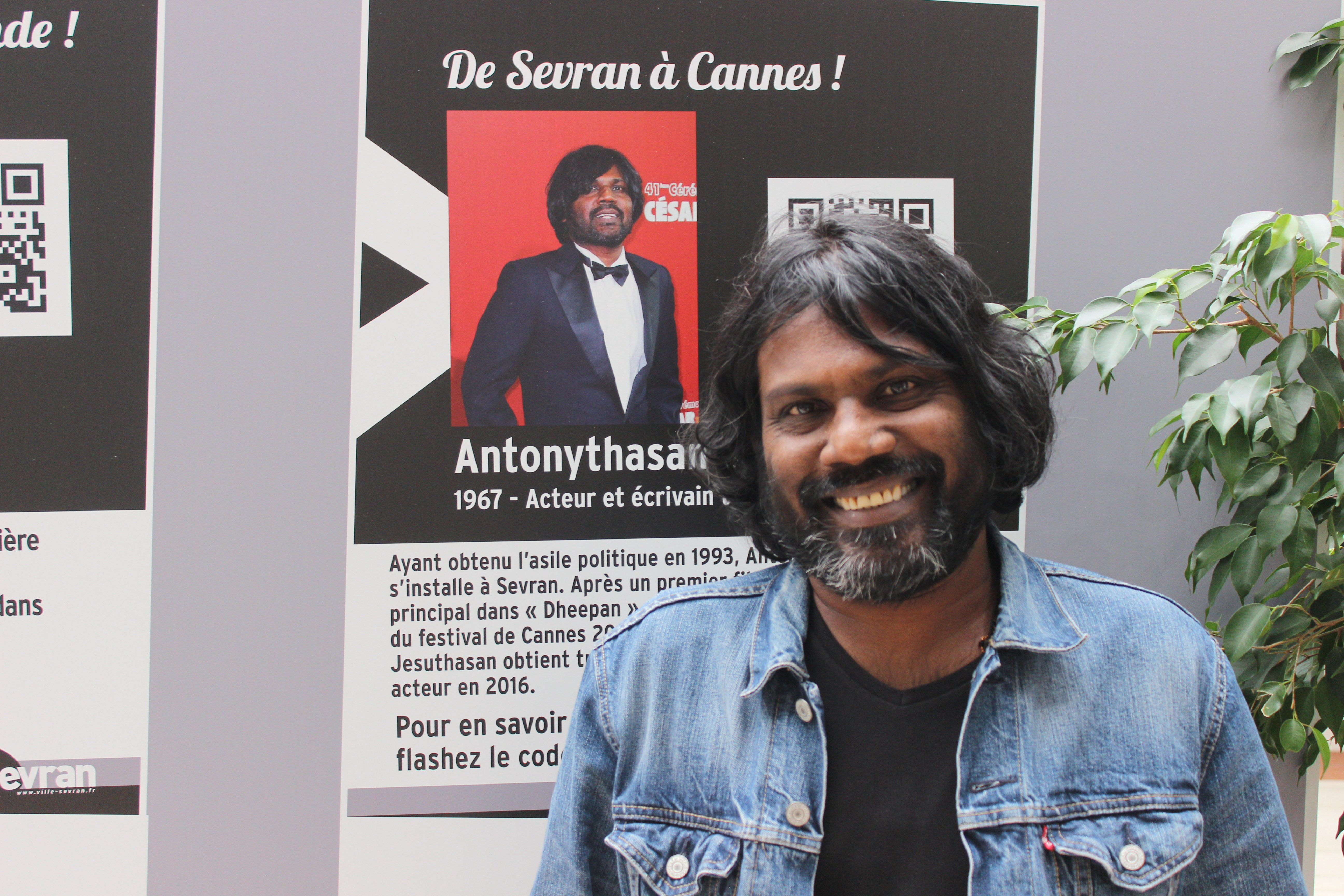 écrivain et acteur Antonythasan Jesuthasan.